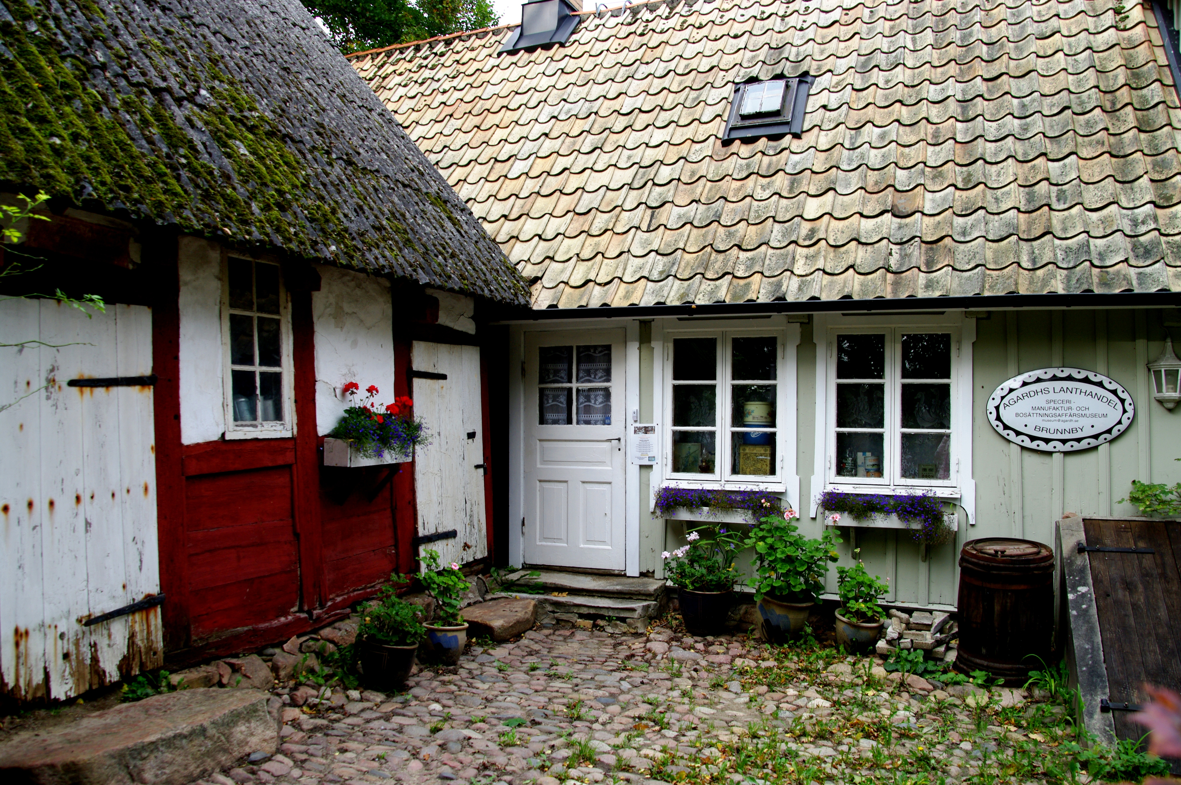 Agardh General Store Museum in Brunnby, Höganäs. Kullabygdens hembygdsförening is caretaker.